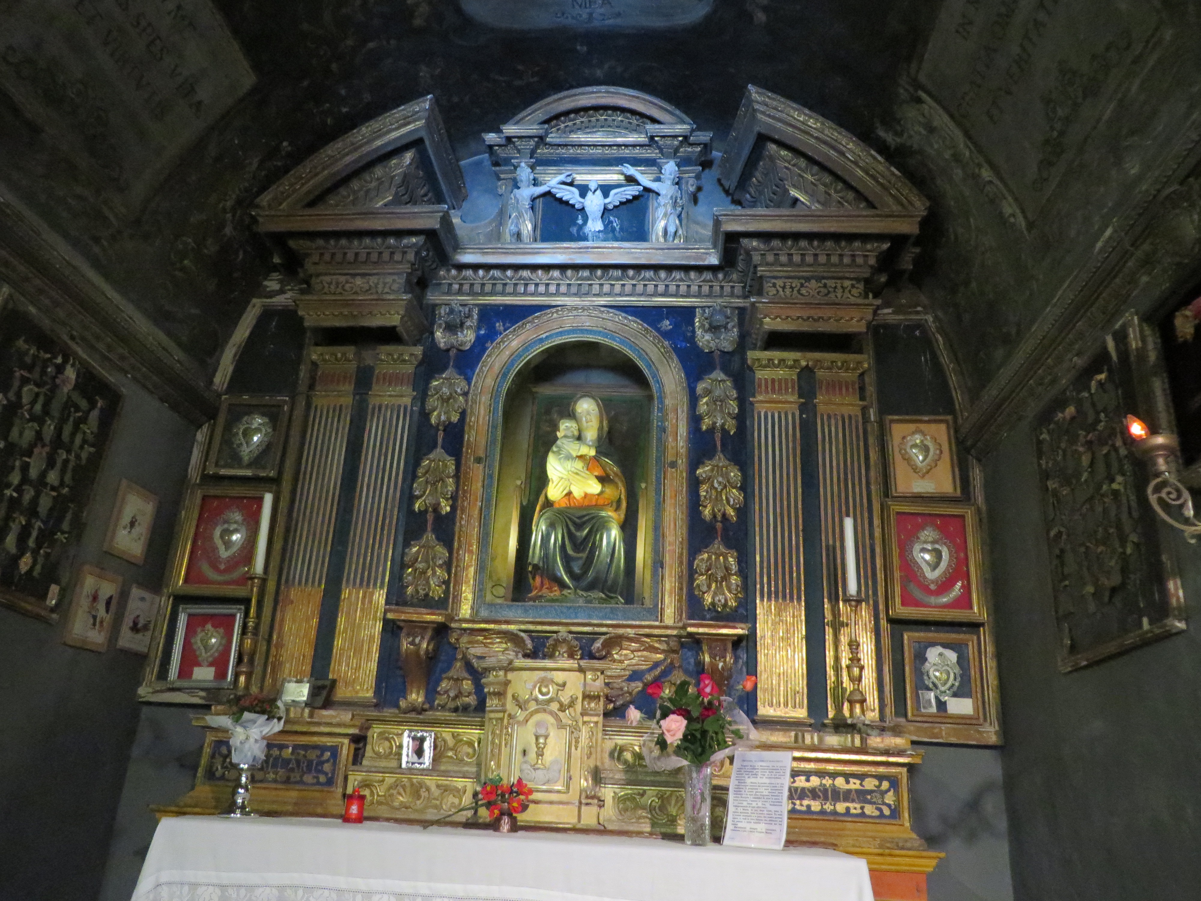 Interior of Sanctuary - image of Our Lady of Macereto